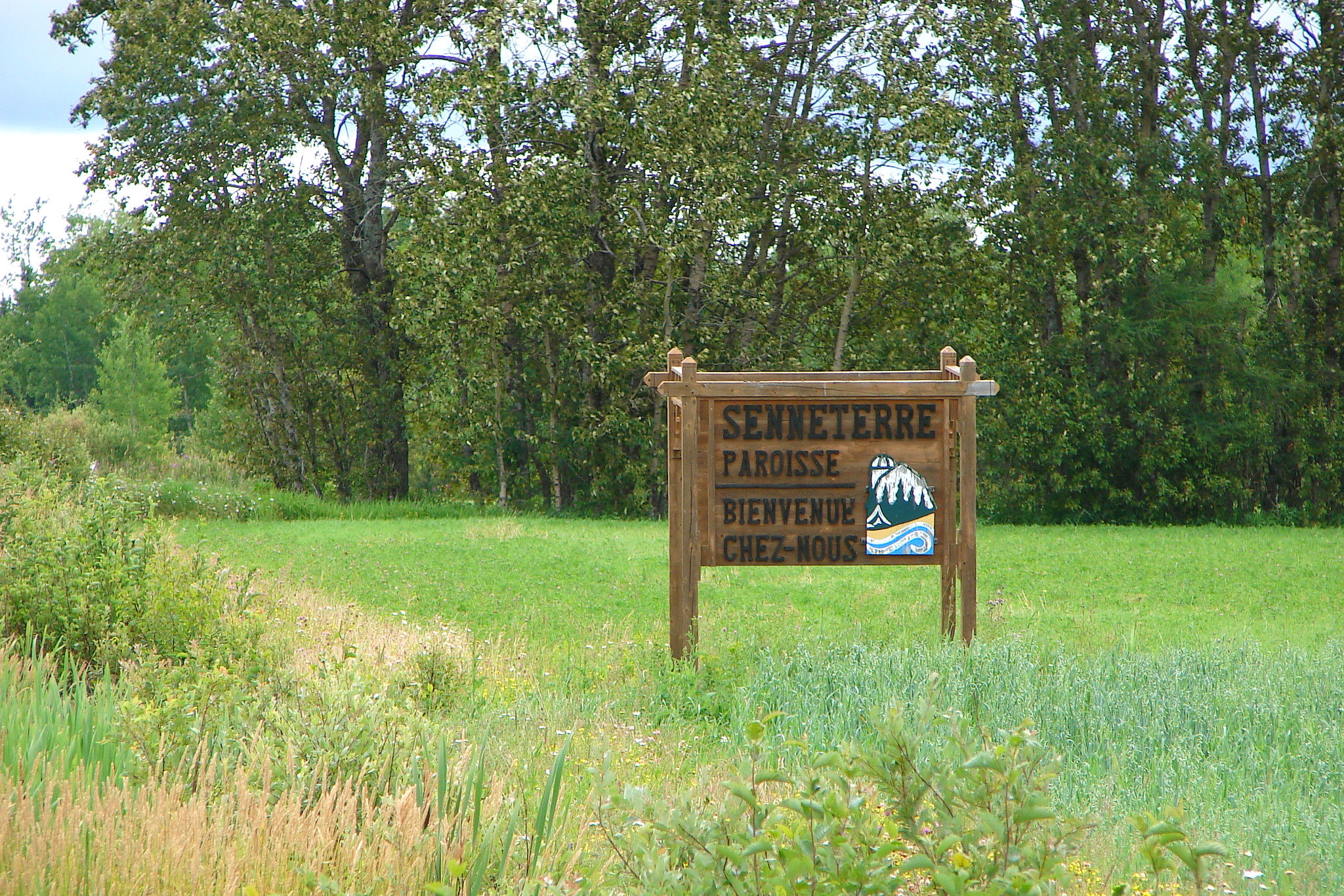 Senneterre (parish), Quebec, Canada